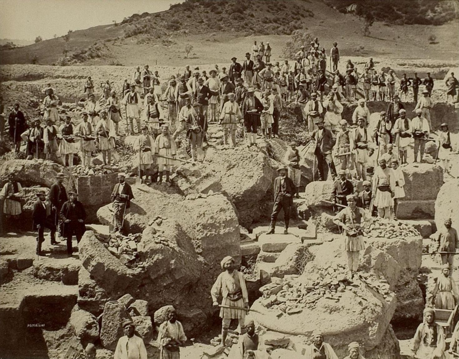 East side of the Zeus temple in Olympia — northern half to northeastern corner — with excavation crew. In front of the building there are statue bases.